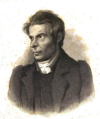 Portrait of Thomas Tredgold (1788–1829), English engineer. From the 1838 edition of his work The Steam Engine.